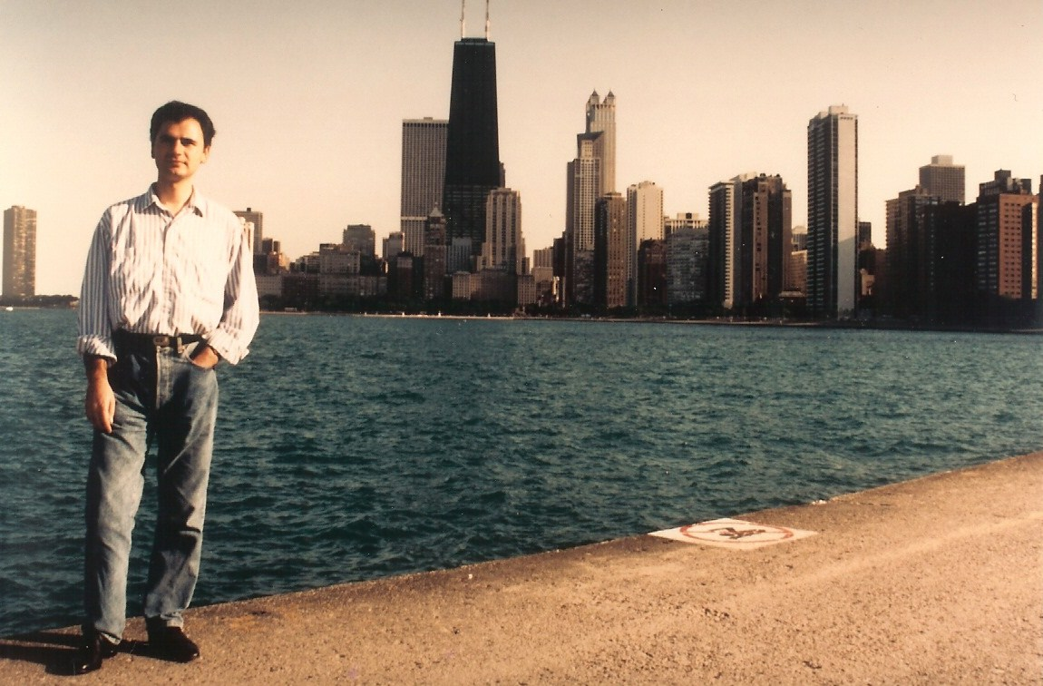 Photograph taken during the walk by Lake Michigan in Chicago.